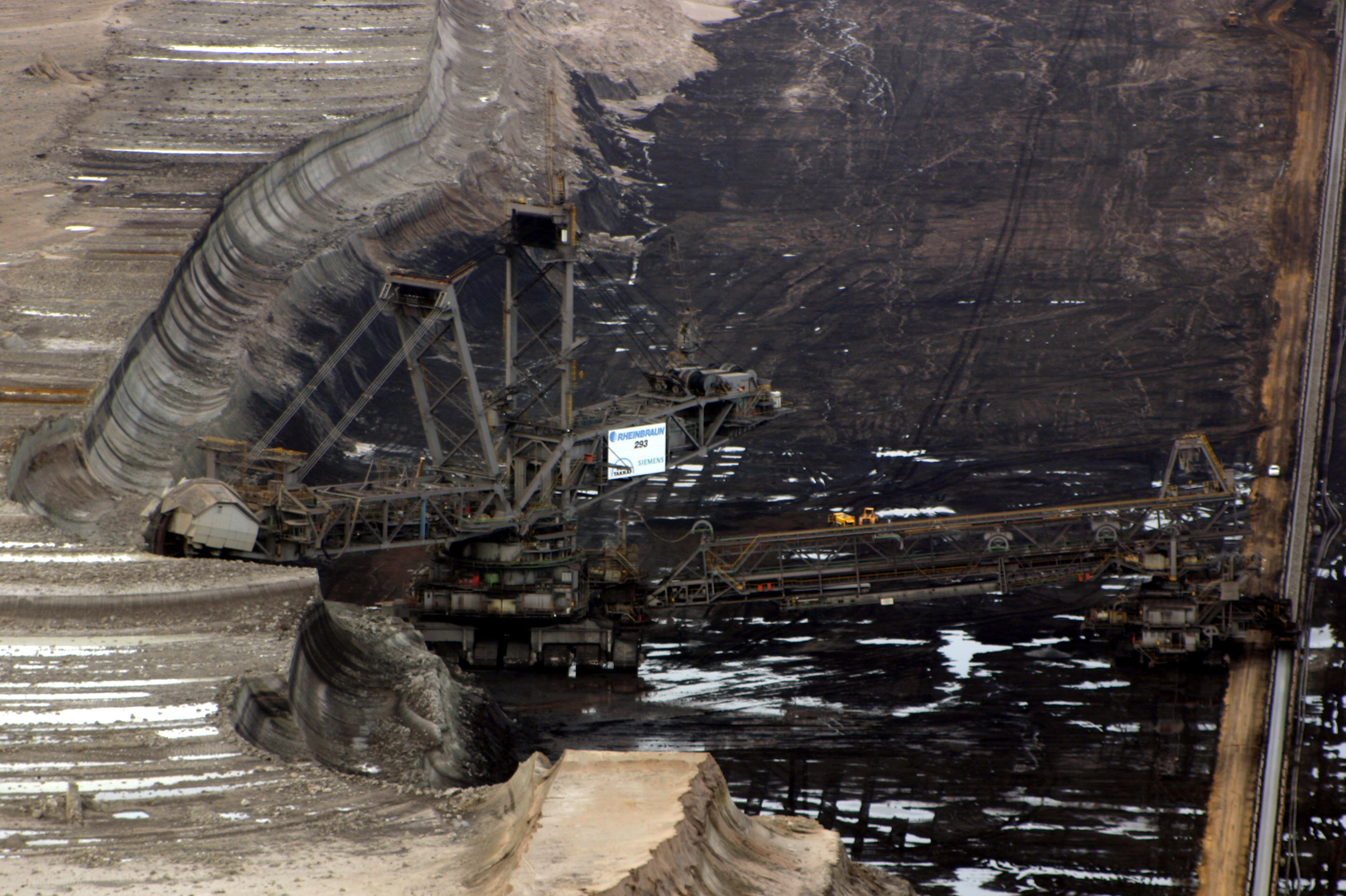 Bagger 293 (TAKRAF type SR 8000) in the Hambach brown coal mine in Germany